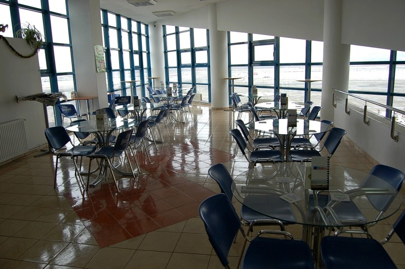 Aeroportul Targu Mures